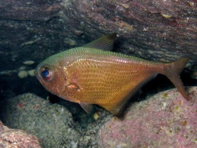 Pempheris vanicolensis photographed in Karpathos, Greece.